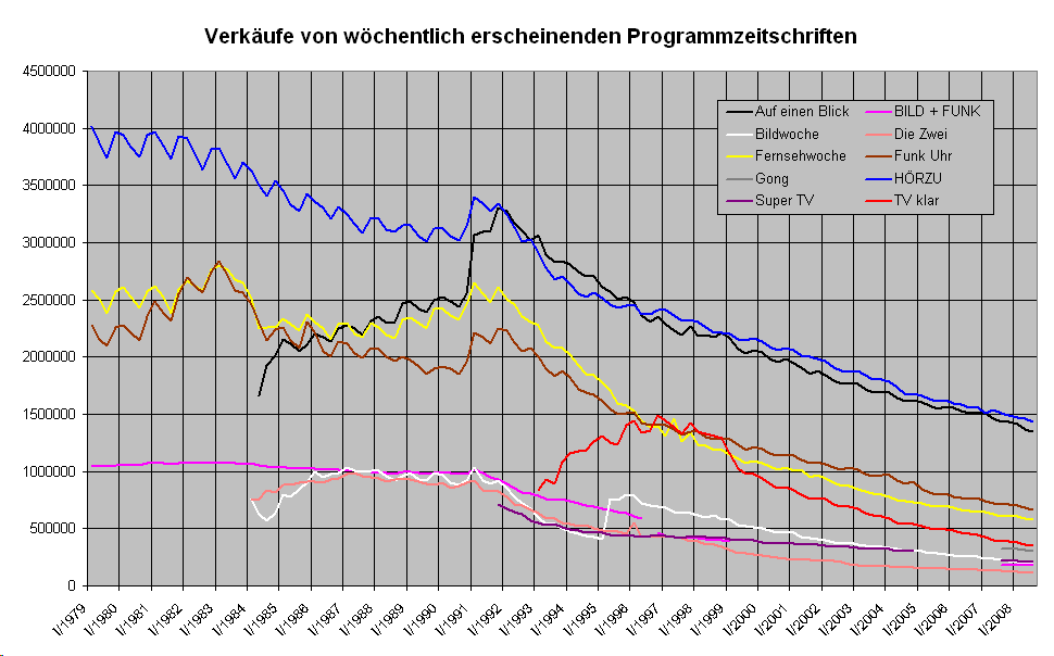 Sells of the weekly published listings magazines in Germany.